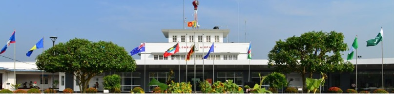 Colombo Airport Ratmalana Landside View